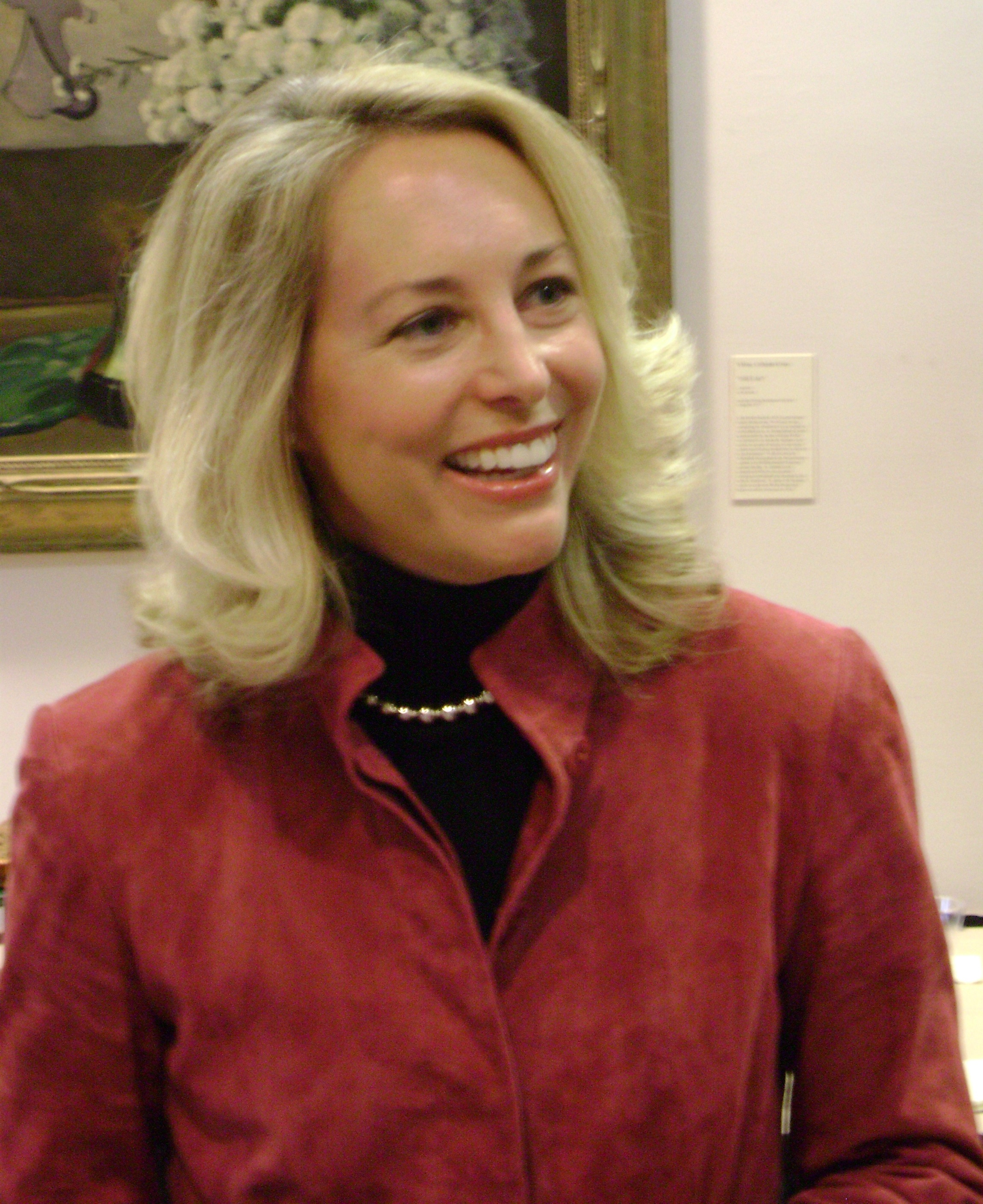 Valerie Plame at an event at Moravian College in Bethlehem, Pennsylvania